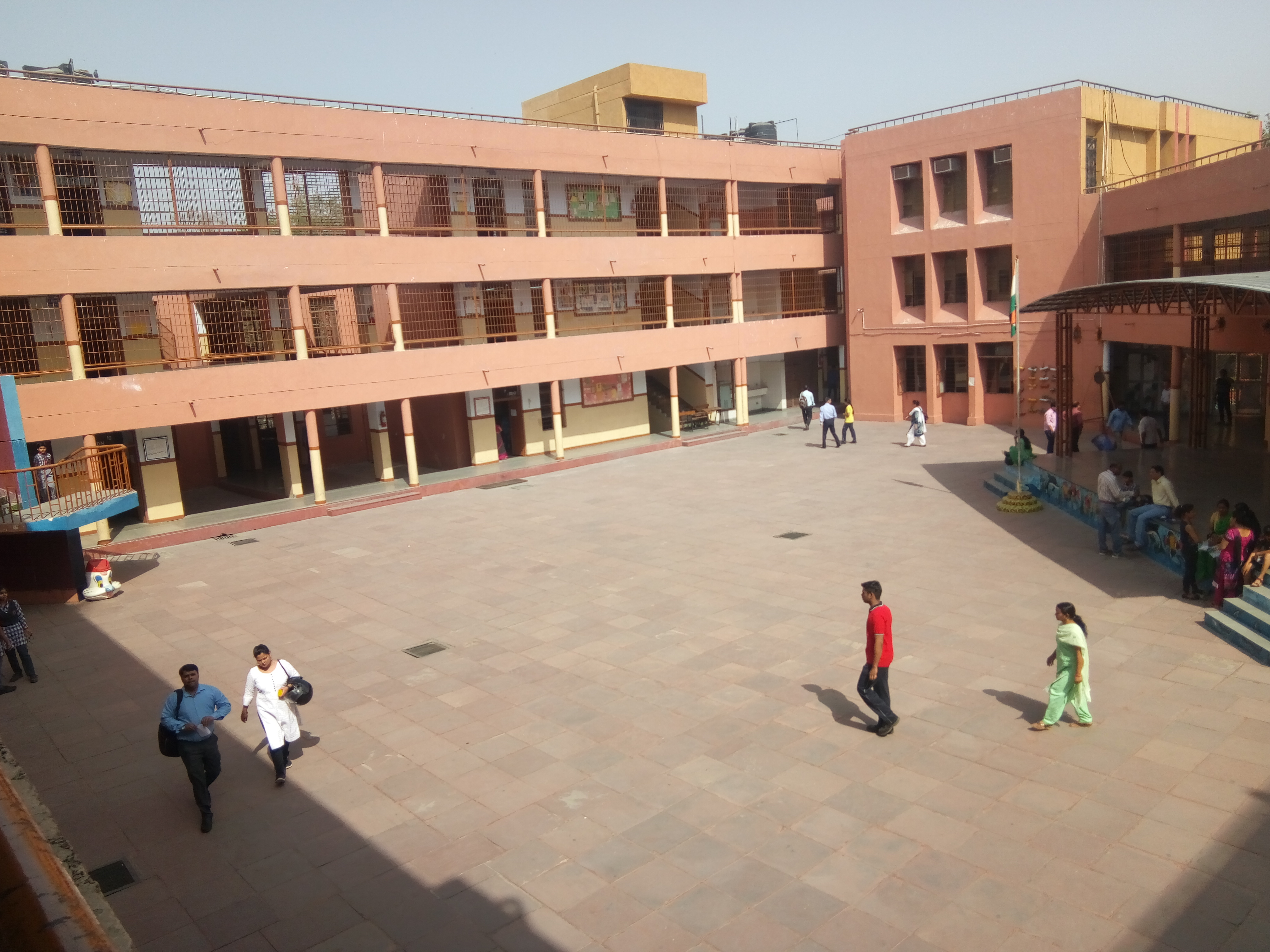 Kendriya Vidyalaya Vigyan Vihar, is a school in Delhi, India and one of the schools under the group known as the Kendriya Vidyalayas, a system of central government schools under the Ministry of Human Resource Development (India).